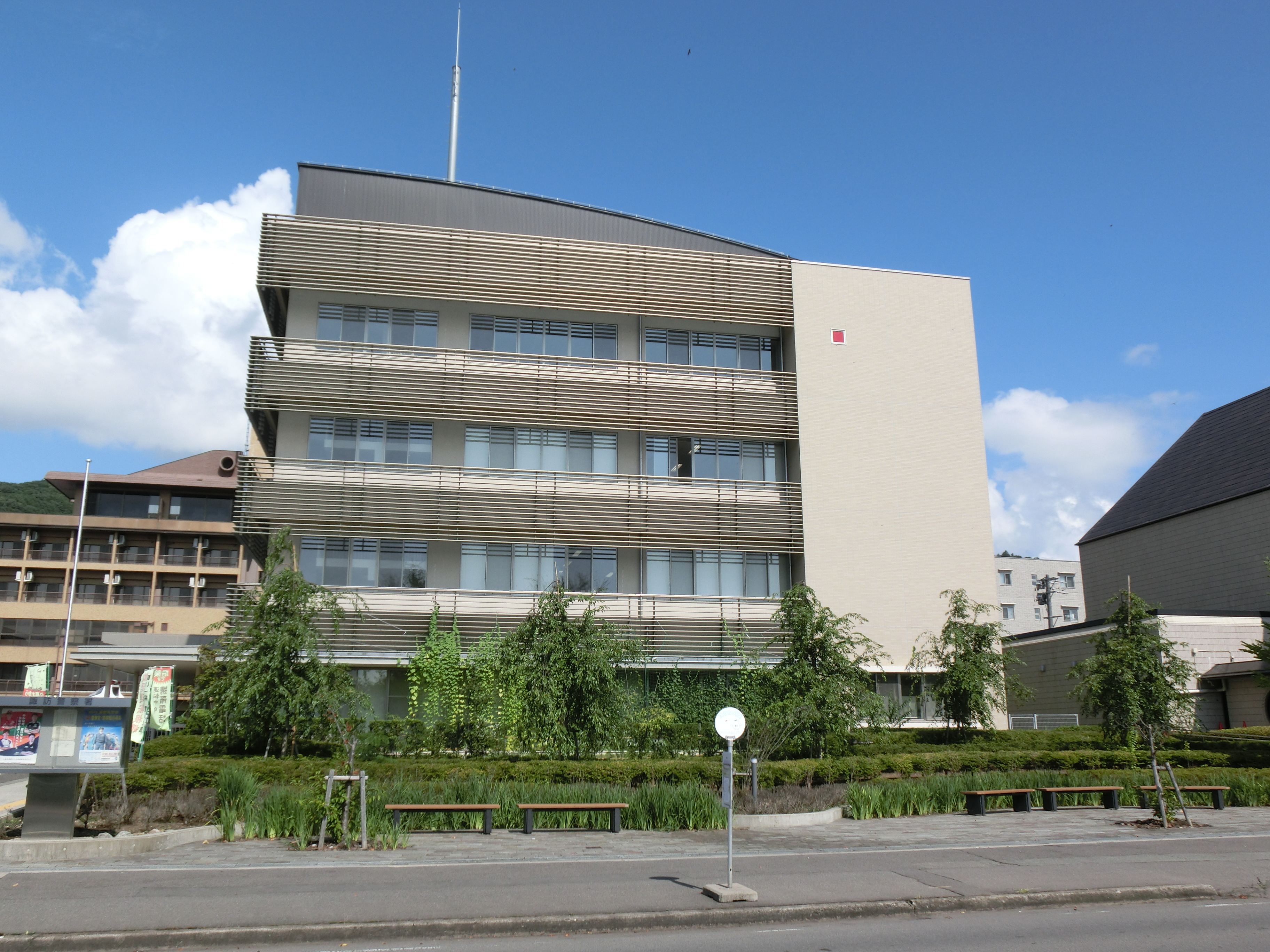 Suwa Police Station